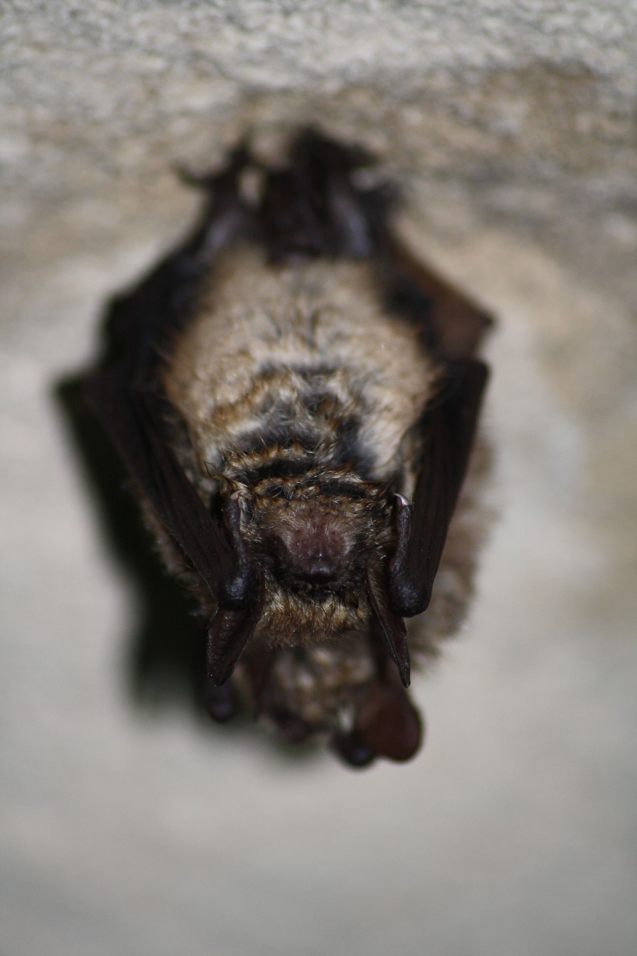 A pair of Geoffroy's bats at rest on a cave roof.